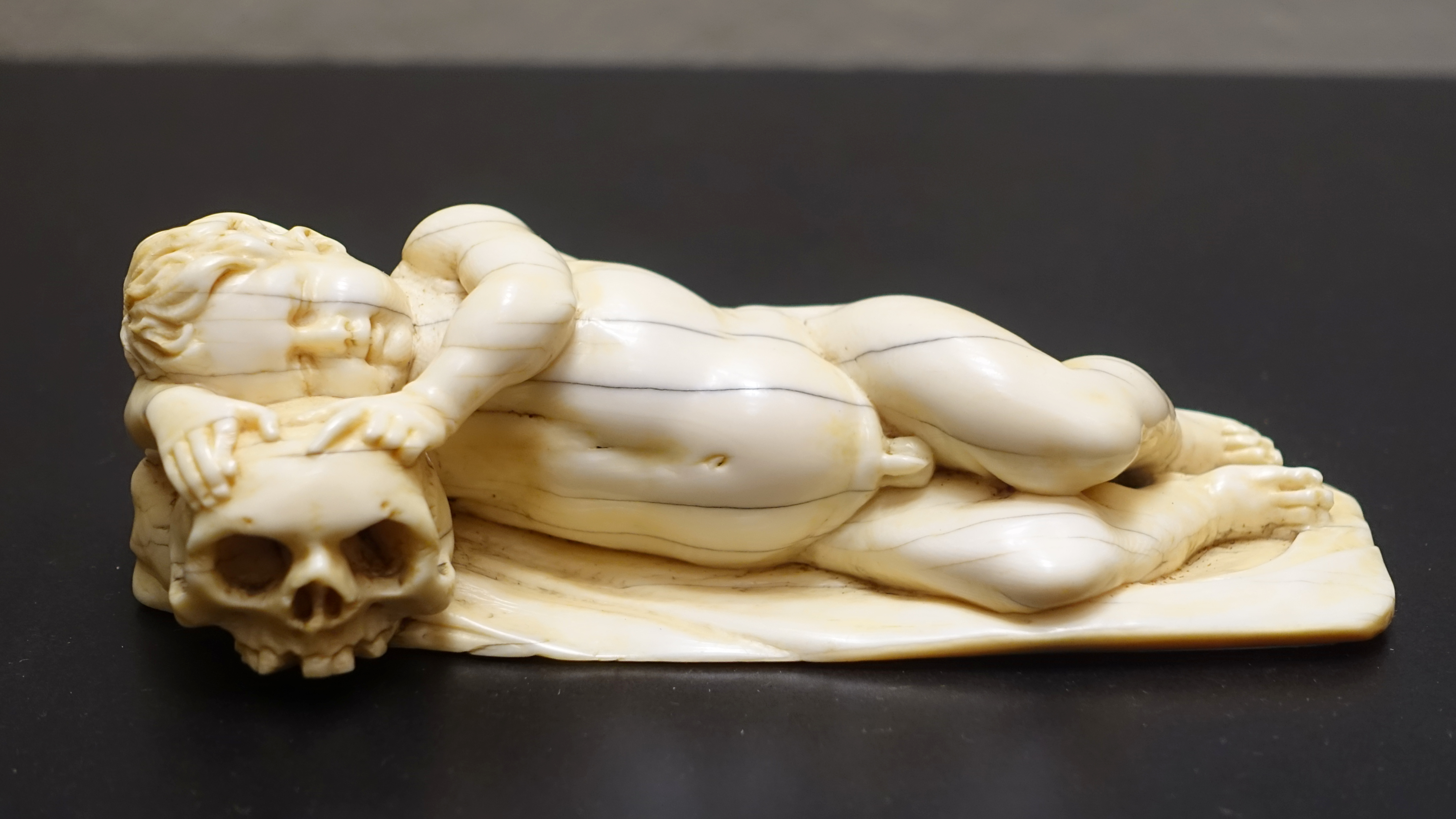 Exhibit in the Museum Schnütgen - Cologne, Germany.